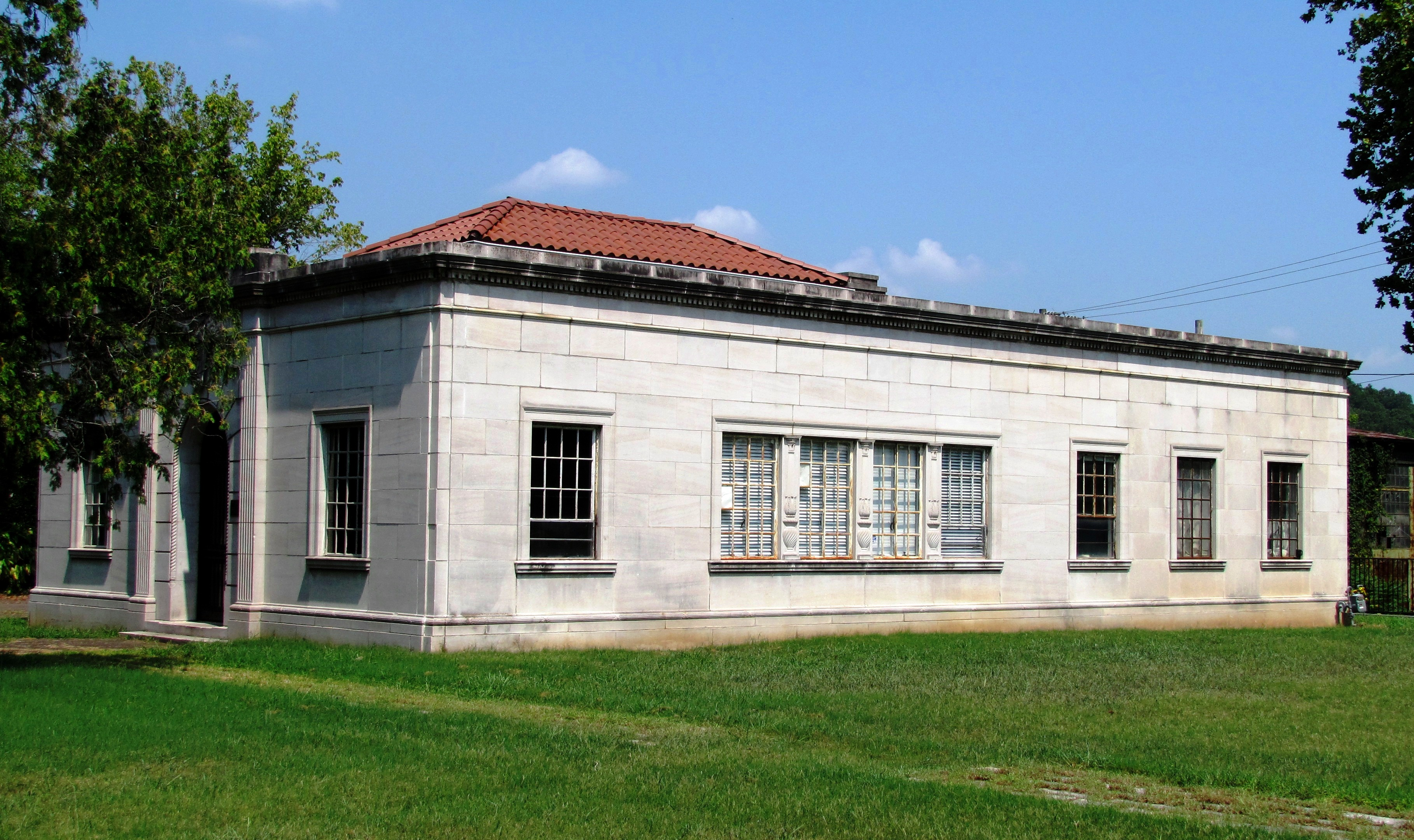 The Candoro Marble Works showroom, viewed from the southeast, in the Vestal community of Knoxville, Tennessee, USA.